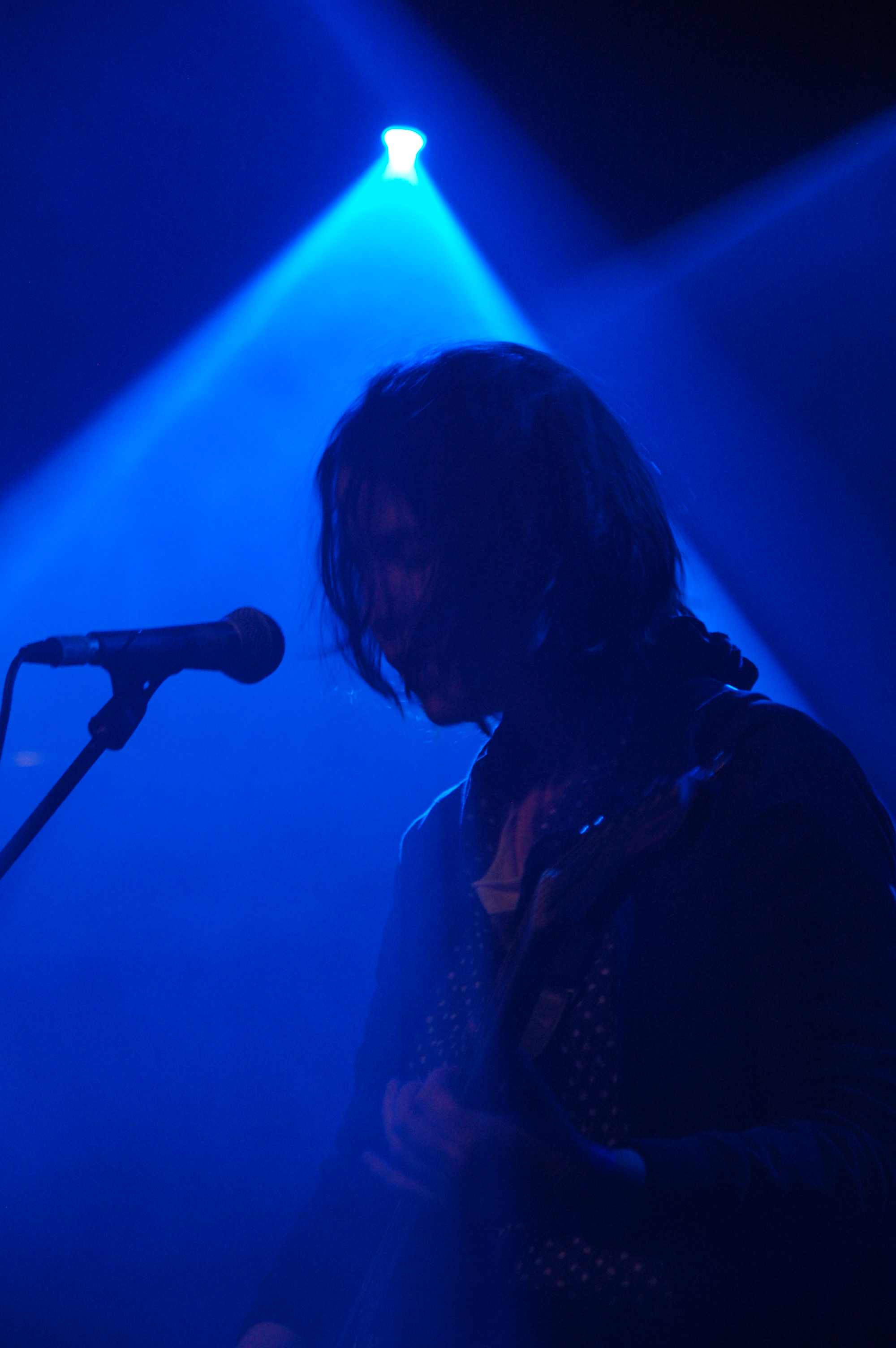 Geneviève Castrée performing as Ô Paon alongside Earth and Mount Eerie at Het Depot in Leuven, Belgium on March 14, 2012